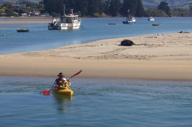 a Kayak in the Harbor Channel at Karatane Otago NZ with Sea Lion on the Beach